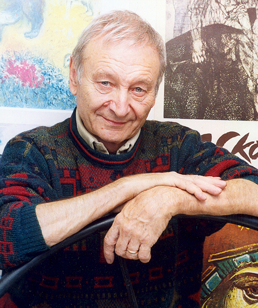 Bulgarian artist Rumen Skorchev in his studio